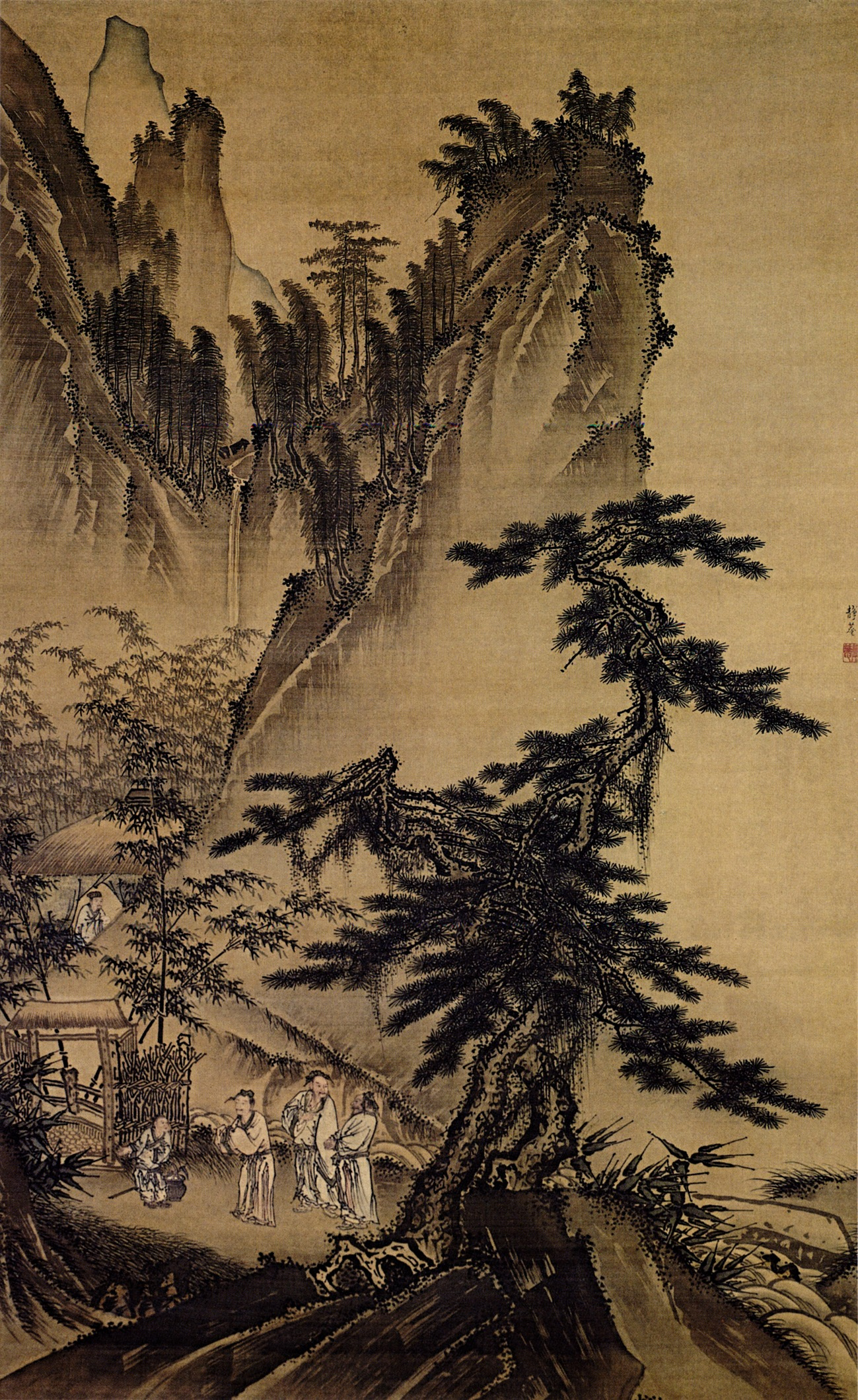 Looking Three Times at the Thatched Hut, hanging scroll, ink on silk, 172.2 x 107 cm. Located at the Palace Museum. This painting is from the Romance of the Three Kingdoms where Liu Bei entreats Zhuge Liang to join him, visiting his thatched hut three times. Zhuge Liang is seated. The three standing people are Liu Bei, Guan Yu, and Zhang Fei.